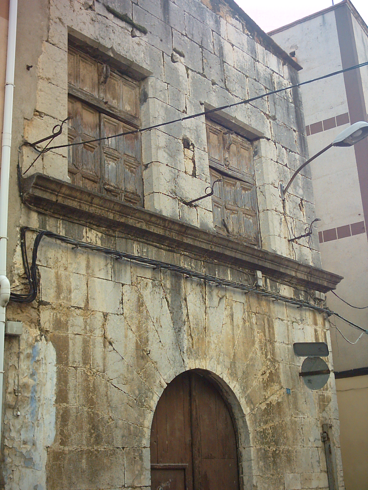 Traiguera